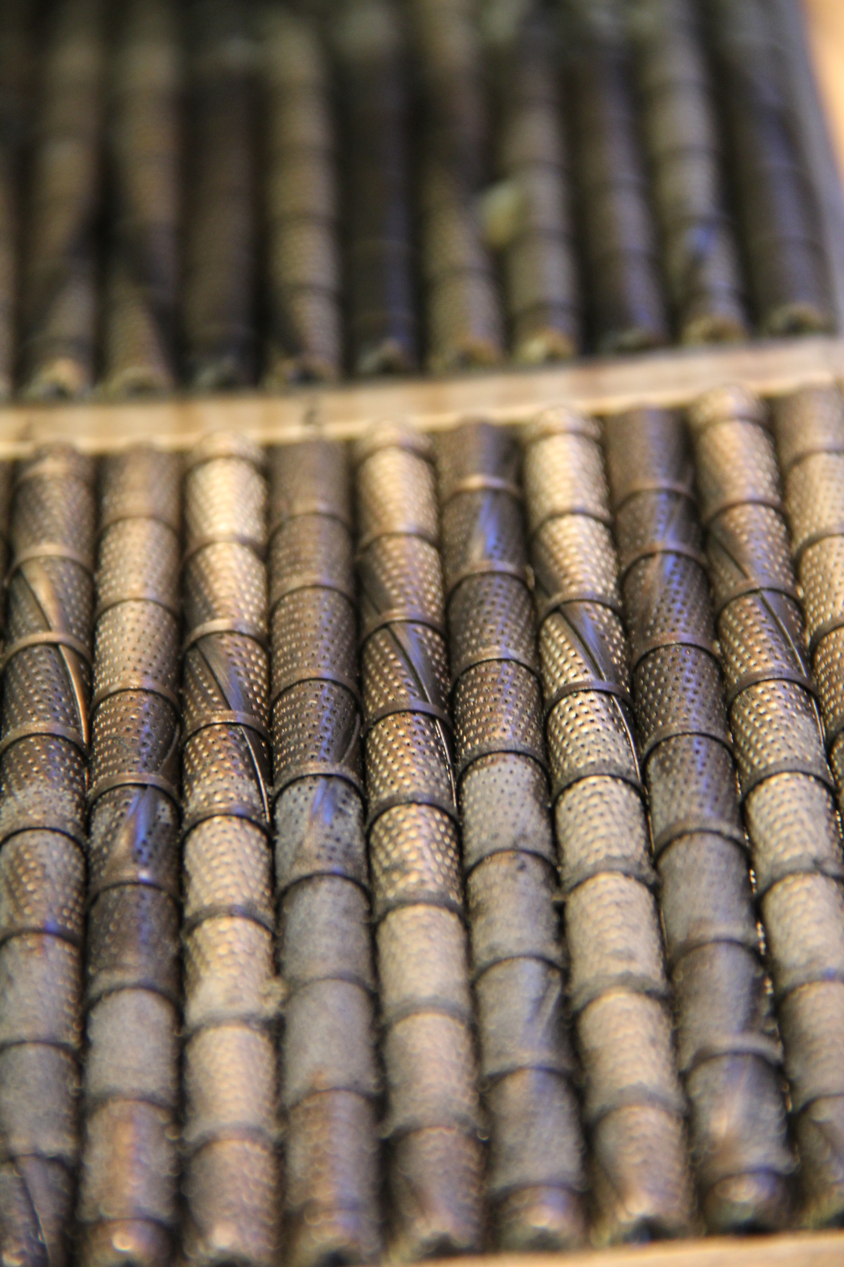 The active material of the positive plates is a form of nickel hydrate. The tube retainers are made of very thin steel ribbon, finely perforated and nickel plated, about 4 in. long and 1/4 in. and 1/8in. in diameter. The ribbon is spirally wound, with lapped seams, and the tubes reinforced at about 1/2 in. intervals with small steel rings. Into these tubes nickel hydrate and pure flake nickel are loaded in very thin, alternate layers (about 350 layers of each to a tube) and are tightly packed or rammed. The purpose of the flake nickel is to make good contact between the nickel hydrate and the tubes, and thereby provide proper conductivity. The tubes, when filled and closed, are then mounted vertically into the grids.